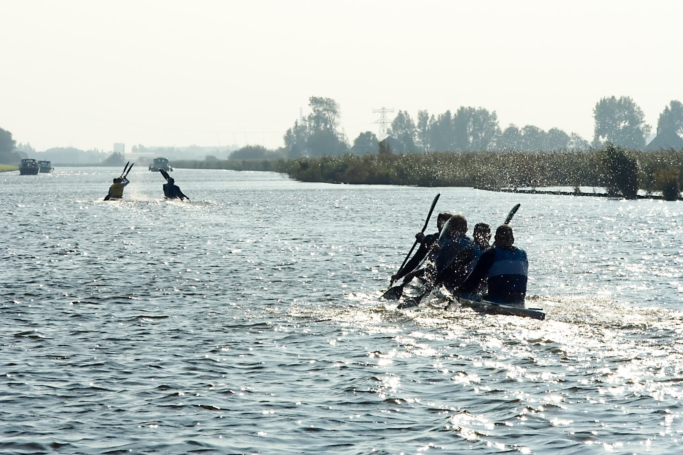 Participants in the yearly K4 'De Rijp' Marathon in the Netherlands are in pursuit of the leading 2 boats. As in cycling it is more beneficial to be in each others slip stream so the last boat has to work harder to catch up.